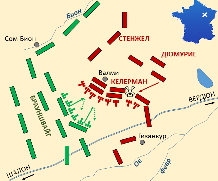 Plan of the battle of Valmy - 20 Sept. 1792